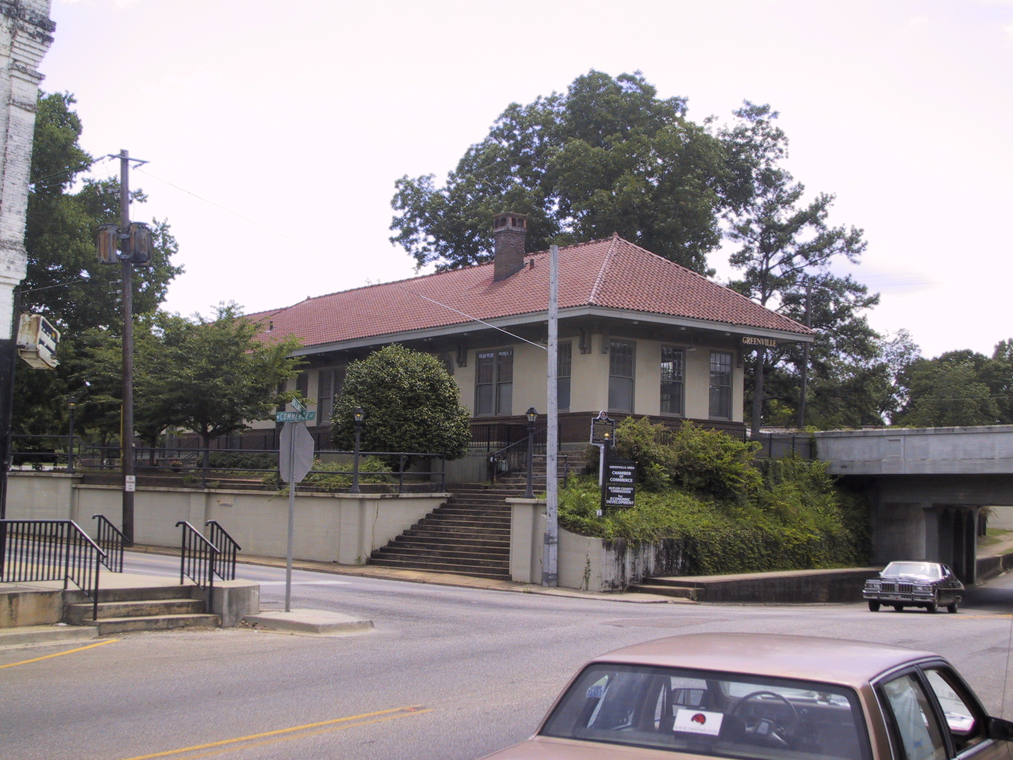 Personal photo made by Slipdigit